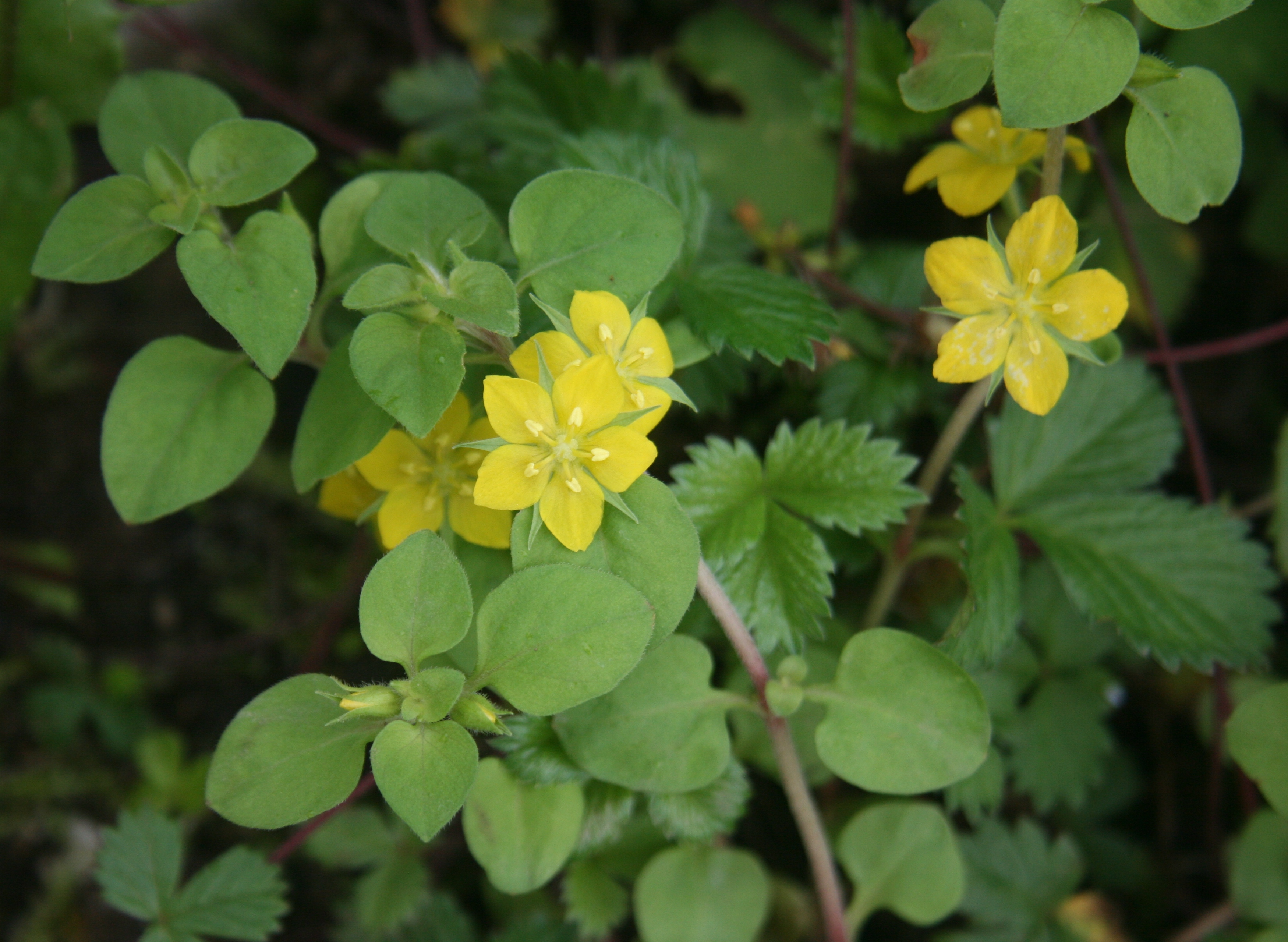 Lysimachia japonica, in Mount Ibuki, Maibara, Shiga prefecture, Japan.